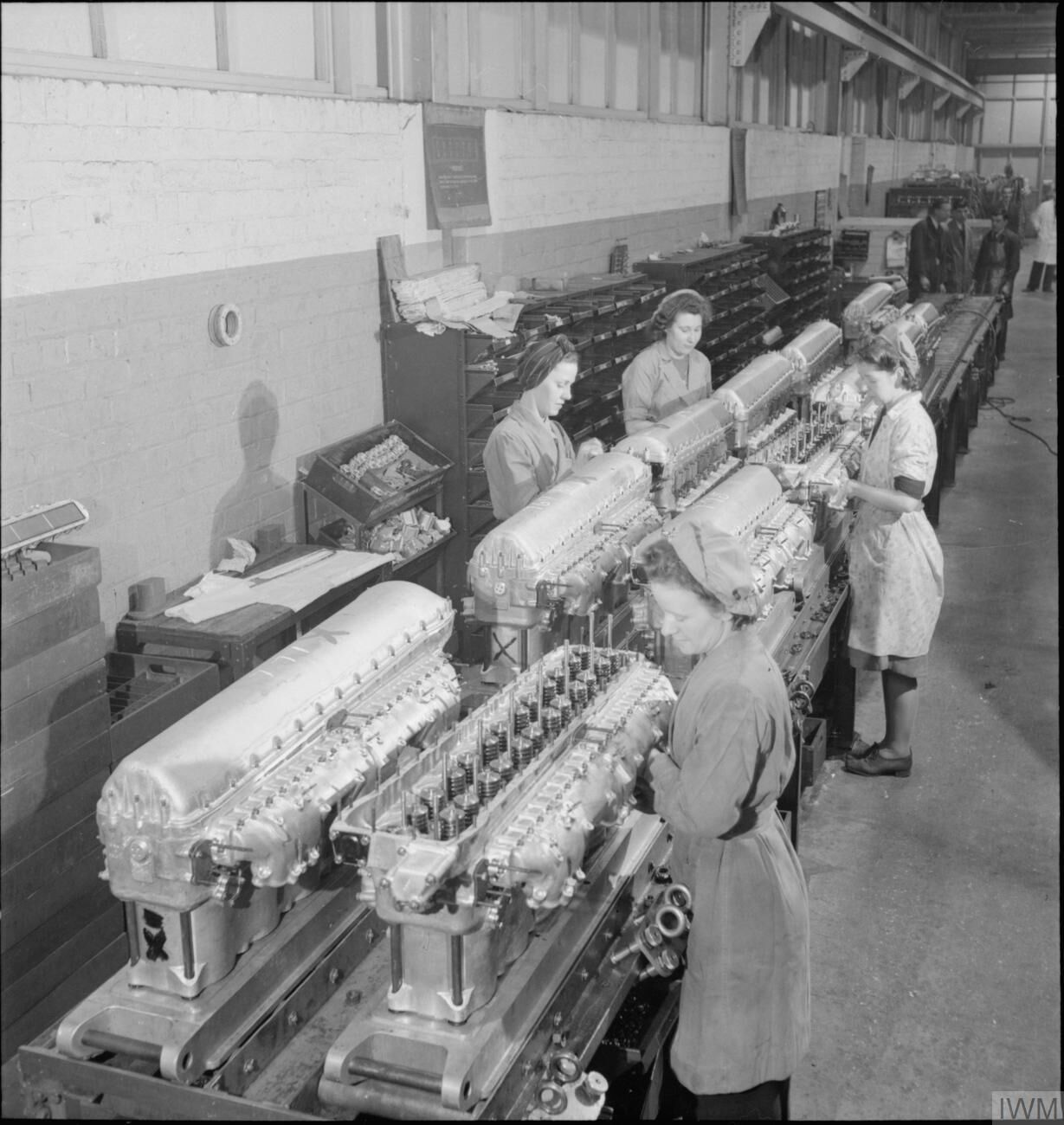 IWM caption : A Merlin is made: the production of Merlin engines at a Rolls Royce factory, 1942. Female workers attach the Induction Manifolds to the Cylinder Blocks, prior to the Blocks being fitted to the engine, at this aircraft engine factory somewhere in Britain.